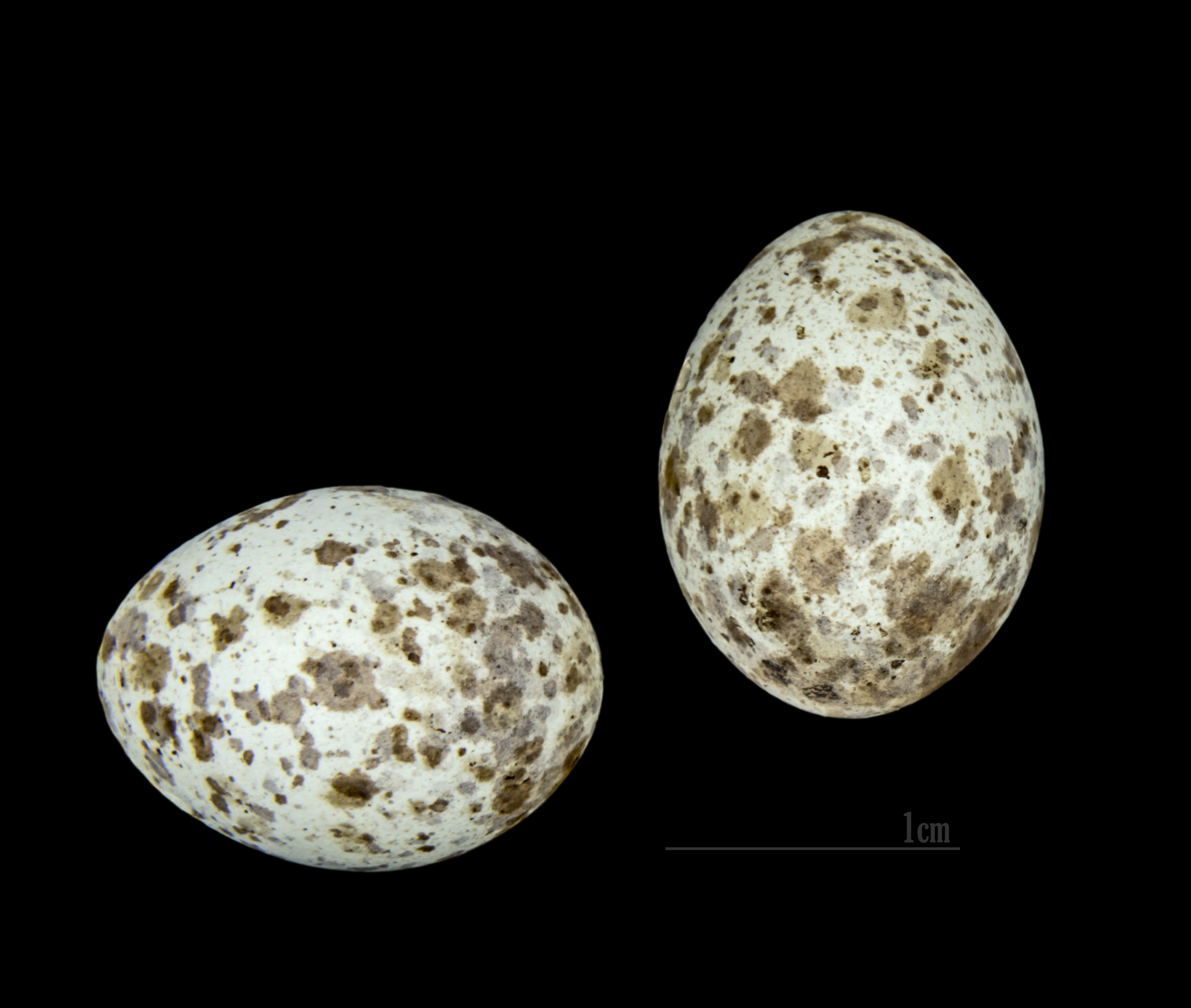 Egg of Eurasian Reed Warbler. Collection of René de Naurois / Jacques Perrin de Brichambaut.